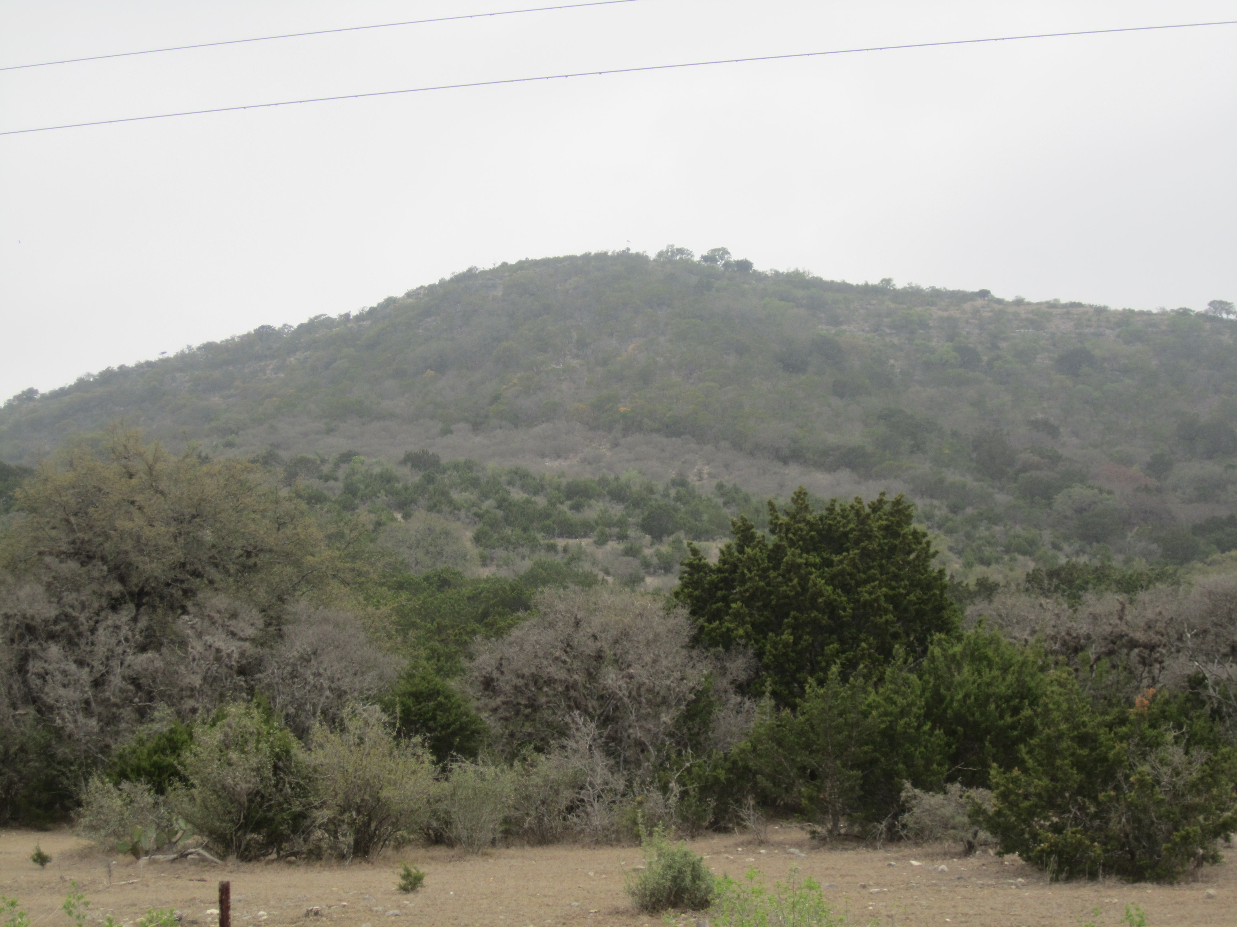 Texas Hill Country view in Leakey, Texas. I took photo with Canon camera in Leakey, TX.